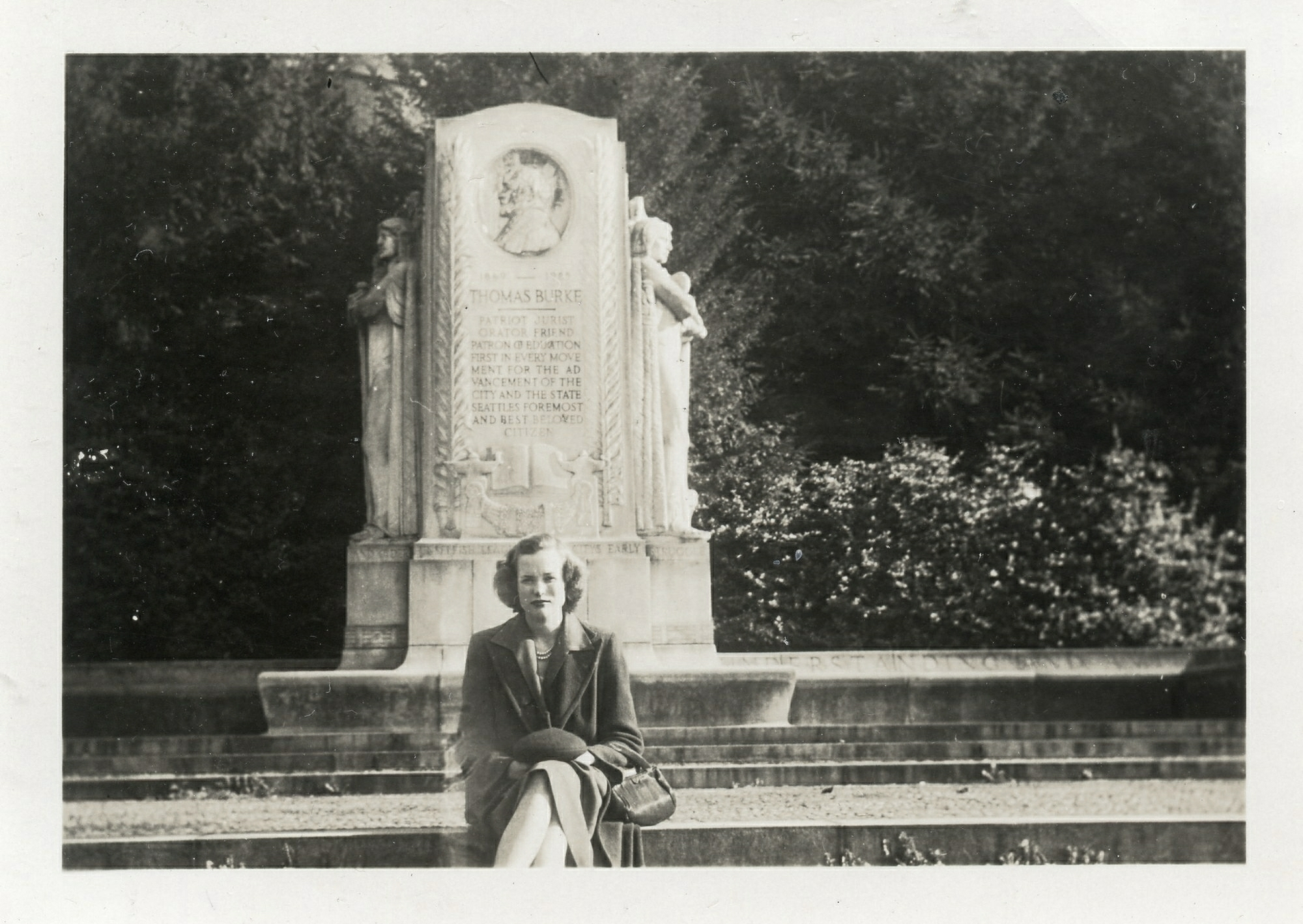 Picked this unlabeled photo up at an antique store. See more of my random acquisitions .